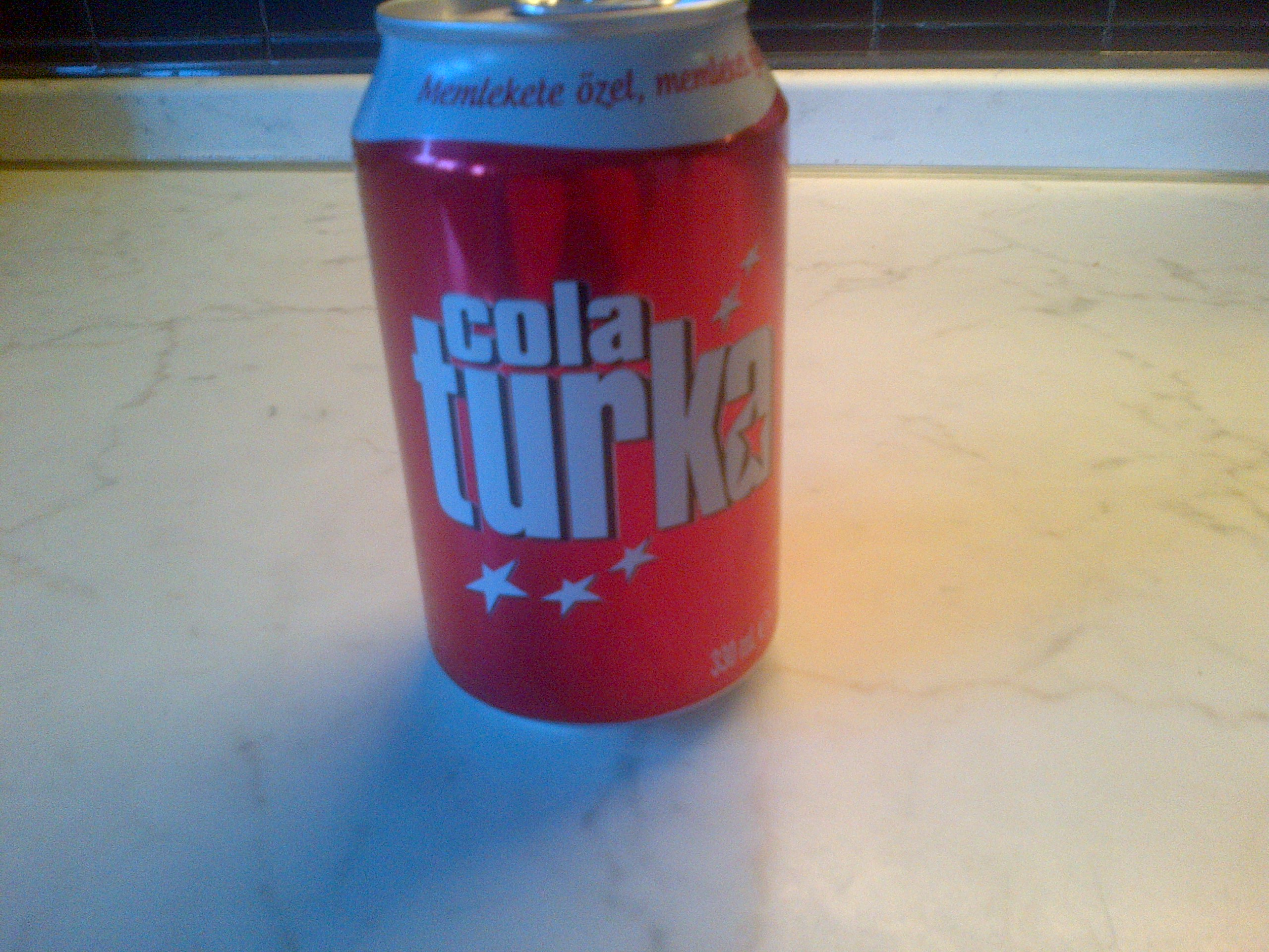 A Cola Turka can, from Turkey. At the upper exterior part, it says "Memlekete özel, memleket gibi güzel", meaning "special to the country, beautiful as the country".